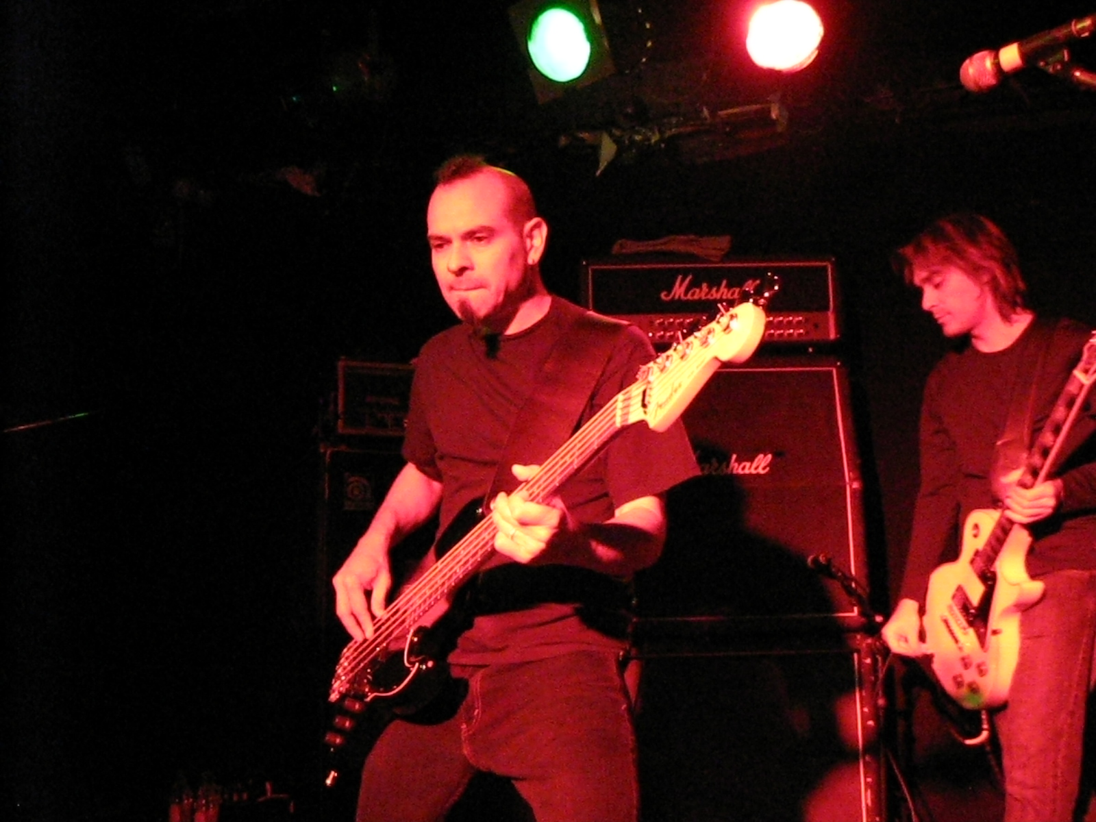 Joey Vera from Fates Warning at The Underworld in Camden, 2007-11-21.